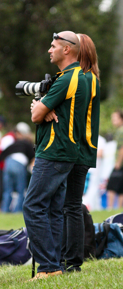 Abbas Saad watching the 2009 Deaf Football Australian Southern Cross Shield.